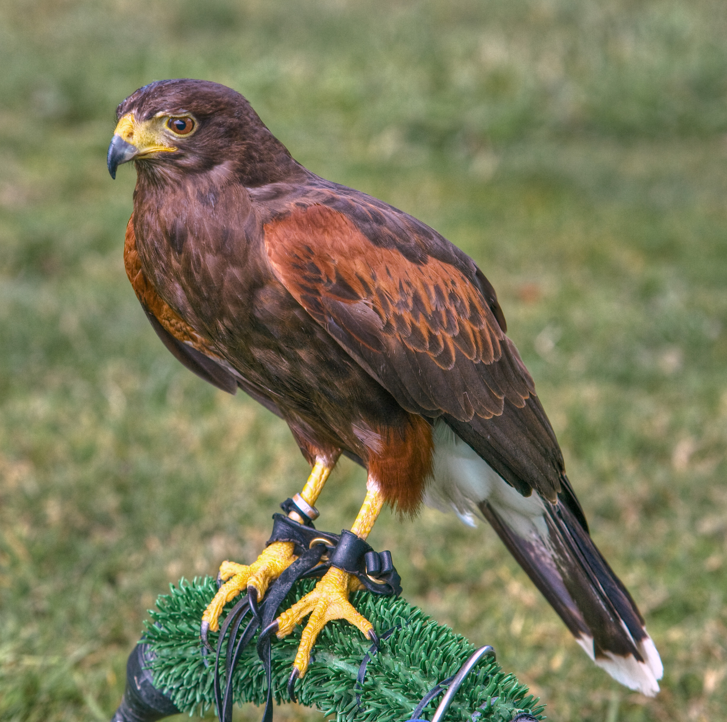 A Harris Hawk tethered to a perch as part of the falconry display at Leeds Castle in Kent, England.